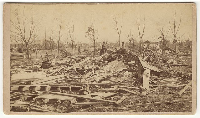 Damage from the Rochester, Minnesota tornado of 1883. View of Lowertown, approx 2nd Ave and 5th Street NW looking Northwest.